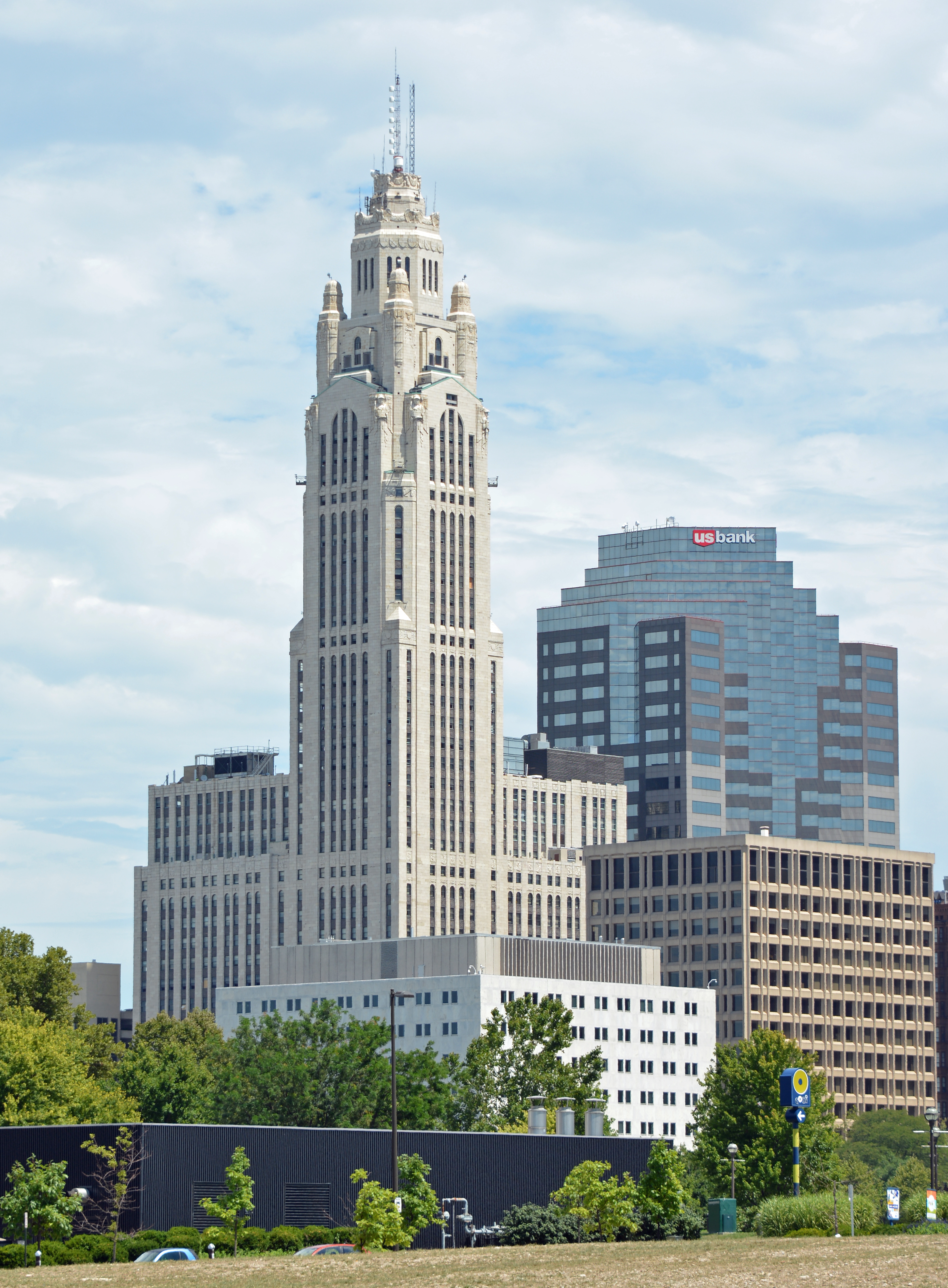 LeVeque Tower, Columbus, Ohio, U.S.